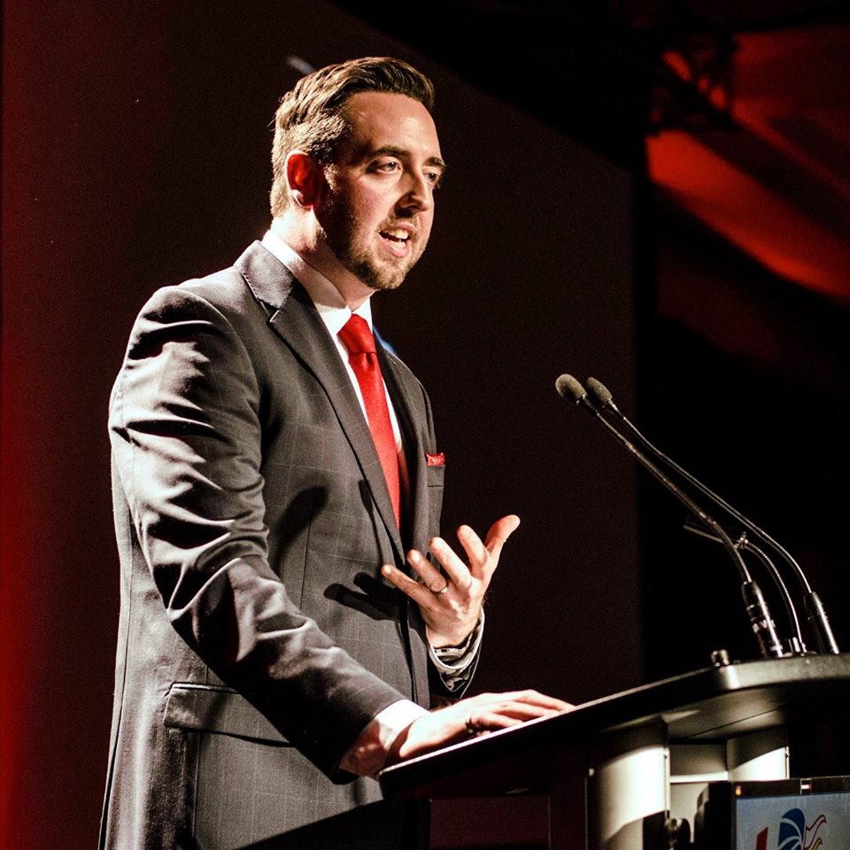 Andrew Parsons is the Member of the House of Assembly for the Newfoundland and Labrador electoral District of Burgeo - La Poile. He is also the Minister of Justice and Public Safety.